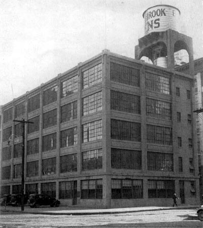 The Esterbrook Pens Co. plant stood at Cooper Street and Delaware Avenue, Candem, New Jersey. It was founded in 1858 by Richard Esterbrook.